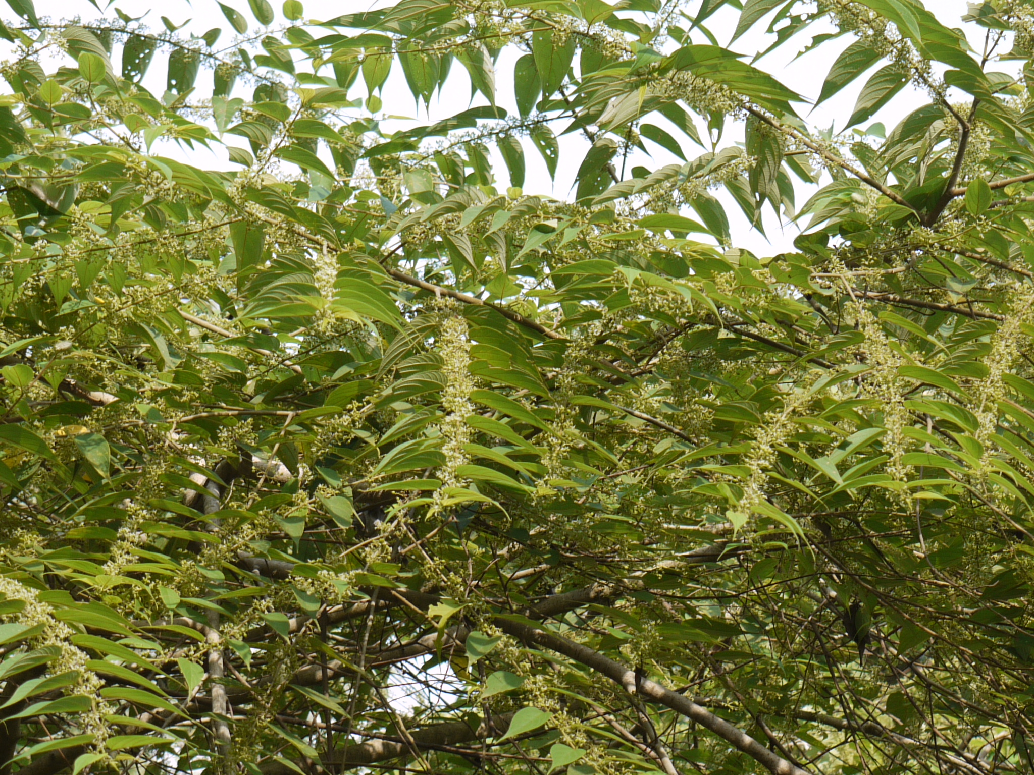 Ulmaceae (elm family) » Trema orientalis TREE-muh -- Greek word for a hole, referring to the pitted seeds or-ee-en-TAY-liss -- of or from the Orient, eastern commonly known as: Indian charcoal tree, Indian Nettle, Indian nettle tree, oriental nettle, pigeon wood, poison peach, Wight's sponia • Assamese: sebaigoch • Bengali: জীবন jiban • Garo: belphur, phakram • Hindi: जीवन jivan, जीवन्ती jivanti, क्षयनाशिनी kshayanashini, पार्वती parvati, प्राणक pranak • Jaintia: dieng lattar • Konkani: खर्गुल khargul • Malayalam: അമരാത്തി amaraaththi, ആമത്താളി aamaththaali, പൊട്ടാമ pottaama, പൊട്ടാമരം pottaamaram • Manipuri: লোক উরী lok uri • Marathi: घोळ gol, कापशी kapshi, खरगोळ khargol • Mizo: bel-phuar • Nepalese: कुँयल् kunyal • Oriya: bel-phuar, kharkas • Sanskrit: जीवनी jivani, jivanti, प्राणक pranaka • Tamil: பேய்முன்னை pey-munnai • Telugu: బొగ్గు చెట్టు boggu chettu, చారపప్పుచెట్టు charapappuchettu, మొరలి morali, ప్రుయాలవృక్షము pruyalavriqshamu Native to: tropical Asia References: Flowers of India • ENVIS - FRLHT • DDSA